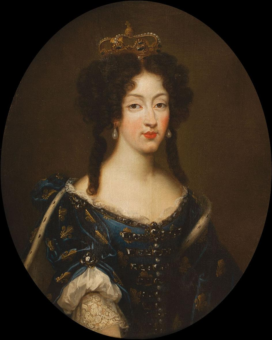 Portrait of Marie Louise d’Orléans (1662-1689) wearing the Fleur-de-lis, showing her dignity as a Grand daughter of France and the Spanish crown